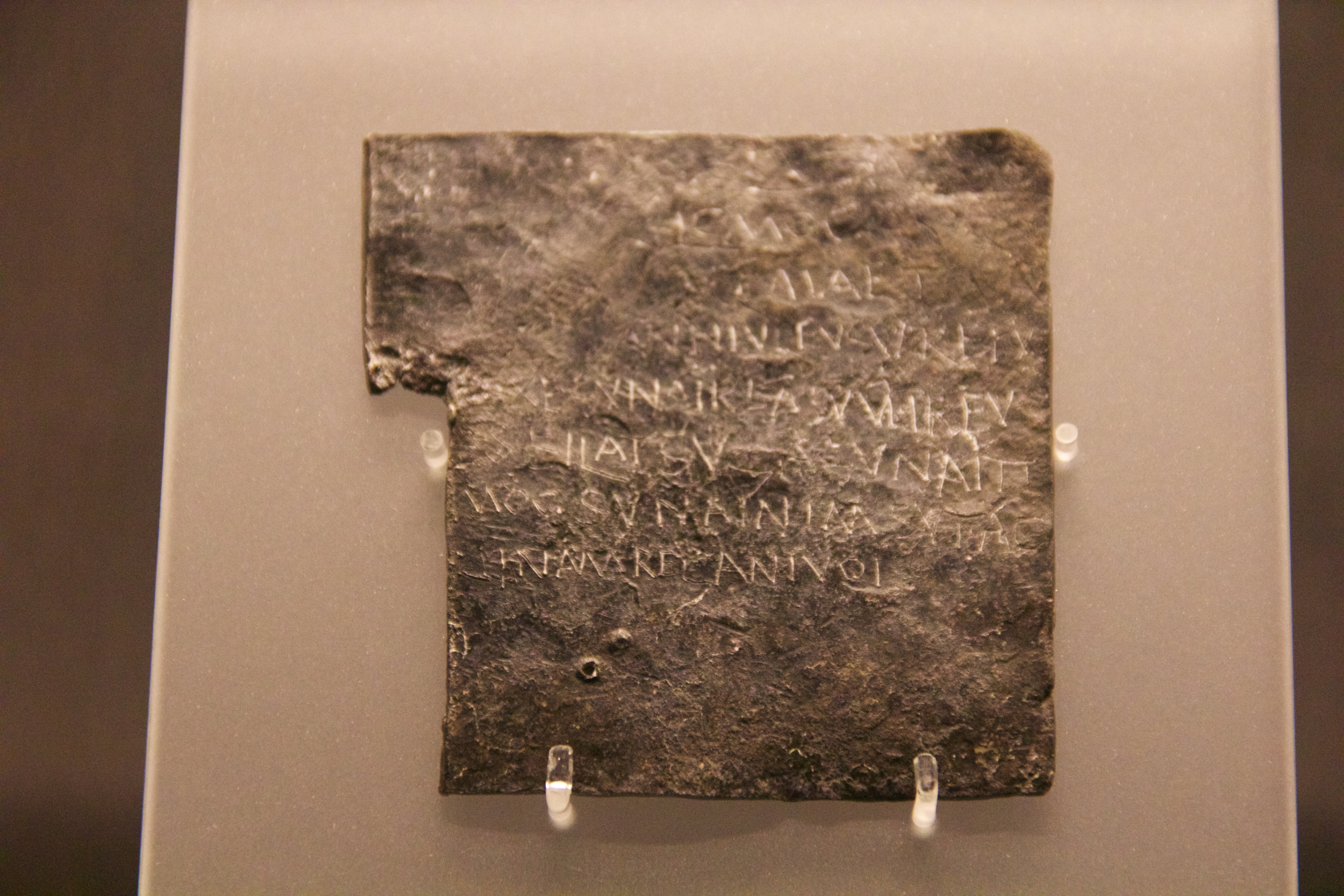 "The Roman curse tablets from Bath Britain's earliest prayers. These tablets are inscribed on the UNESCO Memory of the World register of significant documentary heritage. They are the only documents from Roman Britain on that list. Complaint about theft of Vilbia - probably a woman. This curse includes a list of names of possible culprits. Perhaps Vilbia was a slave." From the Temple Courtyard. Roman baths, Bath, UK